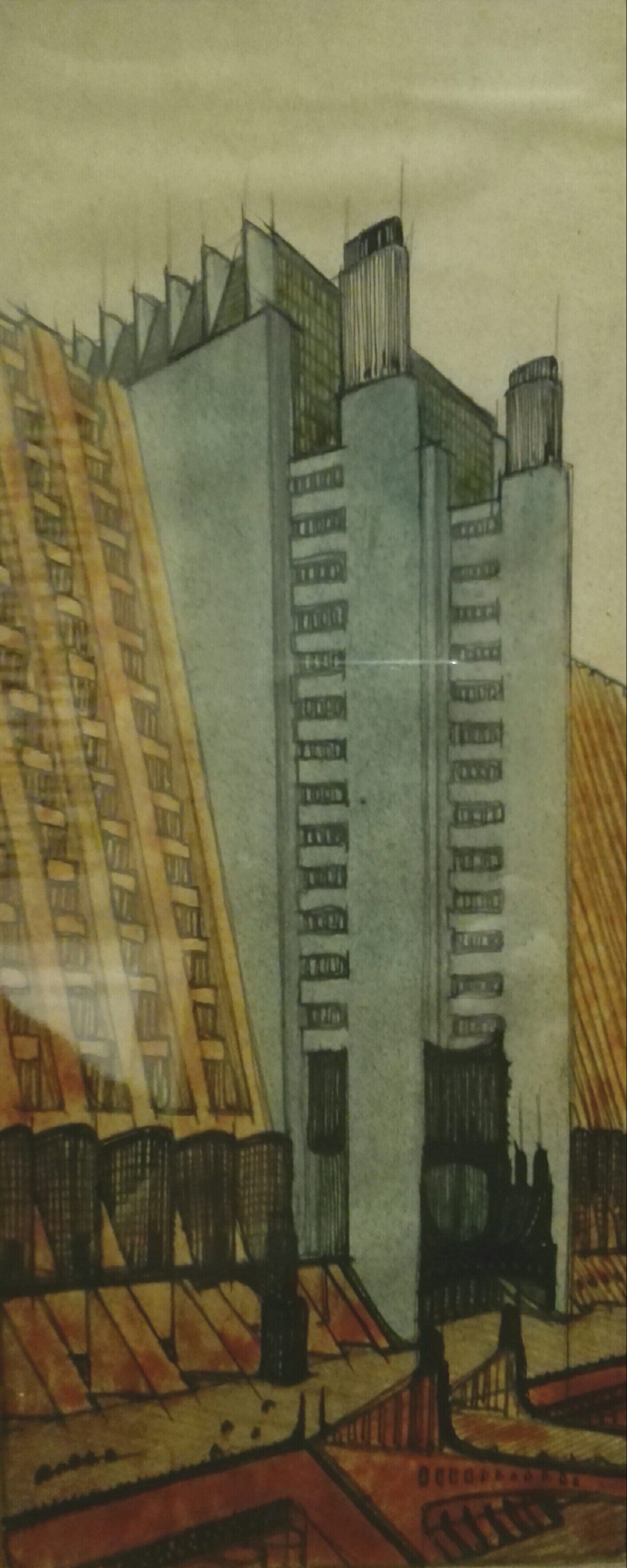 Antonio Sant'Elia, "La città nuova, casa a gradinate su due piani stradali", 1914, matita nera e inchiostri su carta, 27,5x11,5 cm. Collezione privata.